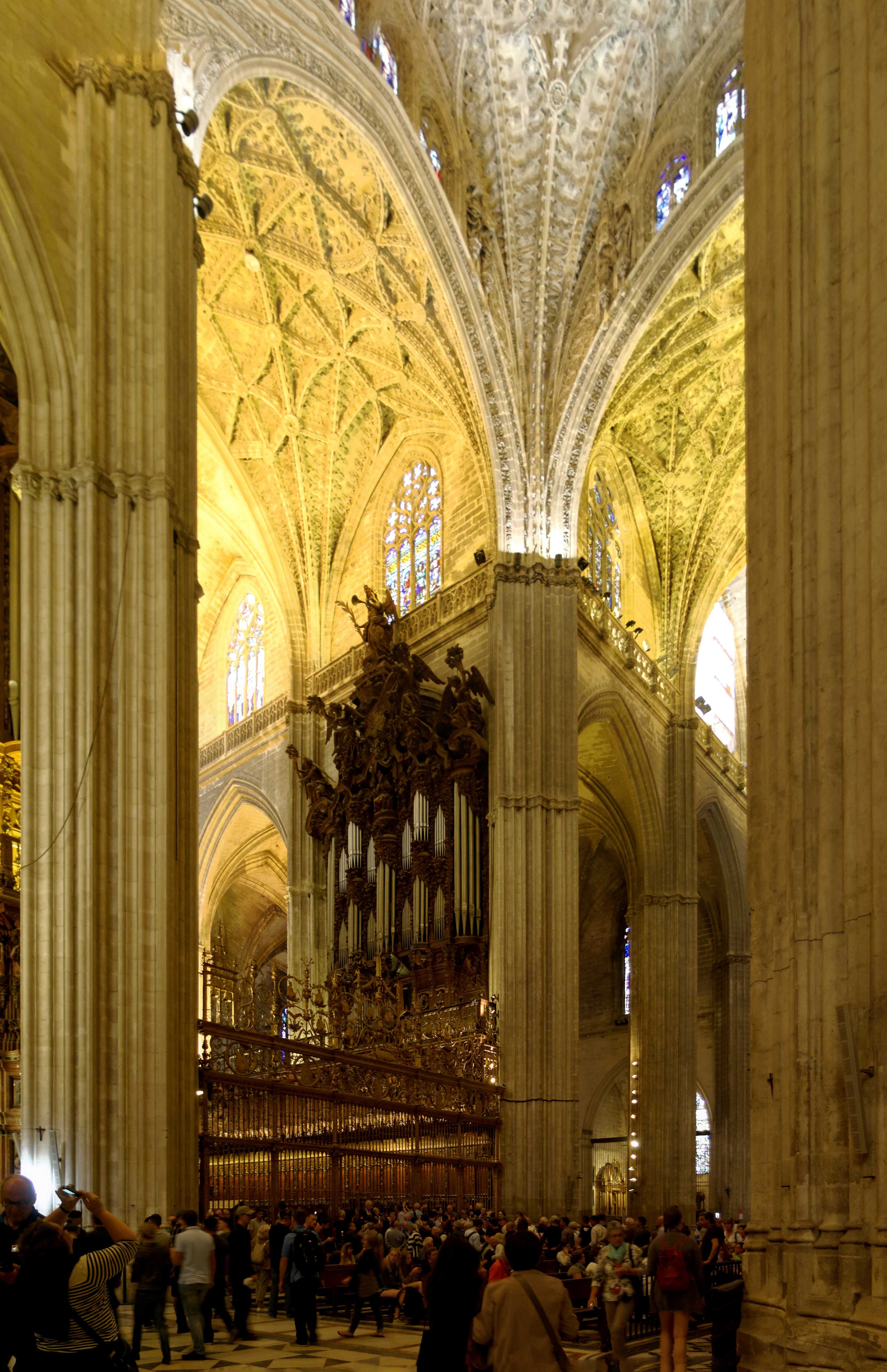 Spain, Sevilla, Cathedral of Seville, organ.